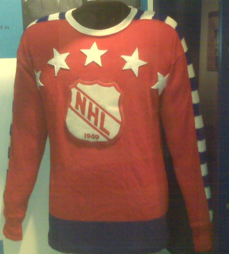 Jersey worn by Maurice Richard of the Montreal Canadiens at the 3rd National Hockey League All-Star Game in 1949. Part of the Canadian Museum of Civilization collection.